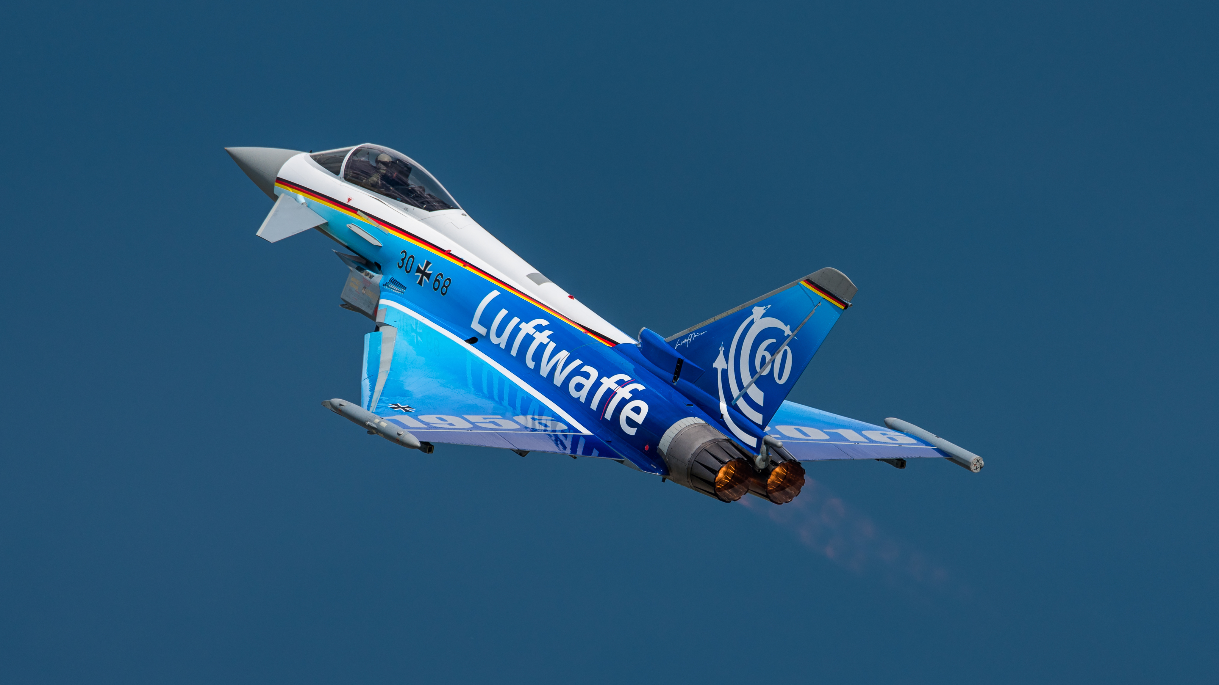 Eurofighter Typhoon EF2000 (reg. 30+68) of the German Air Force (Deutsche Luftwaffe, Taktisches Luftwaffengeschwader 74) at ILA Berlin Air Show 2016.